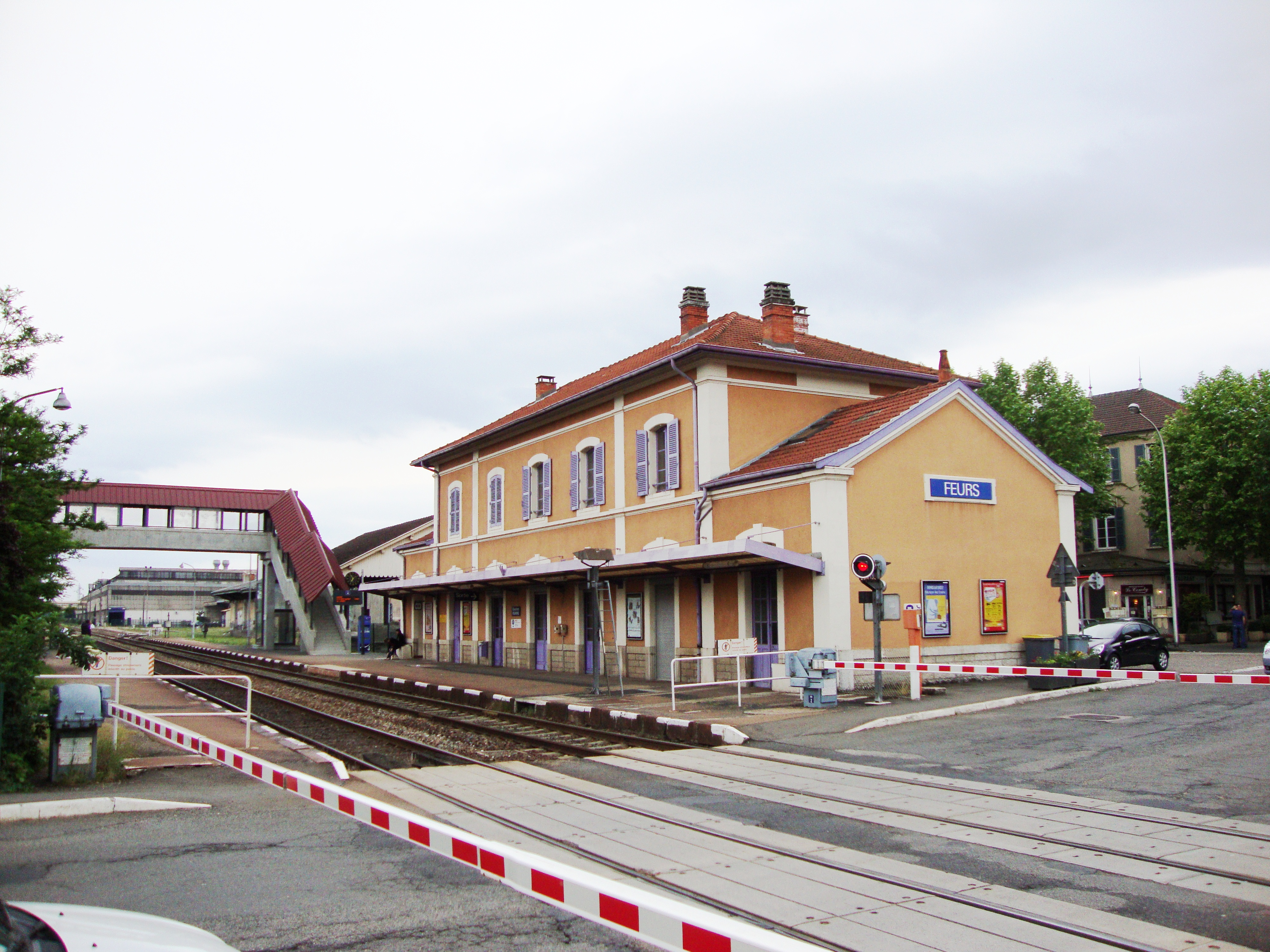 Feurs (Loire, Fr) train station